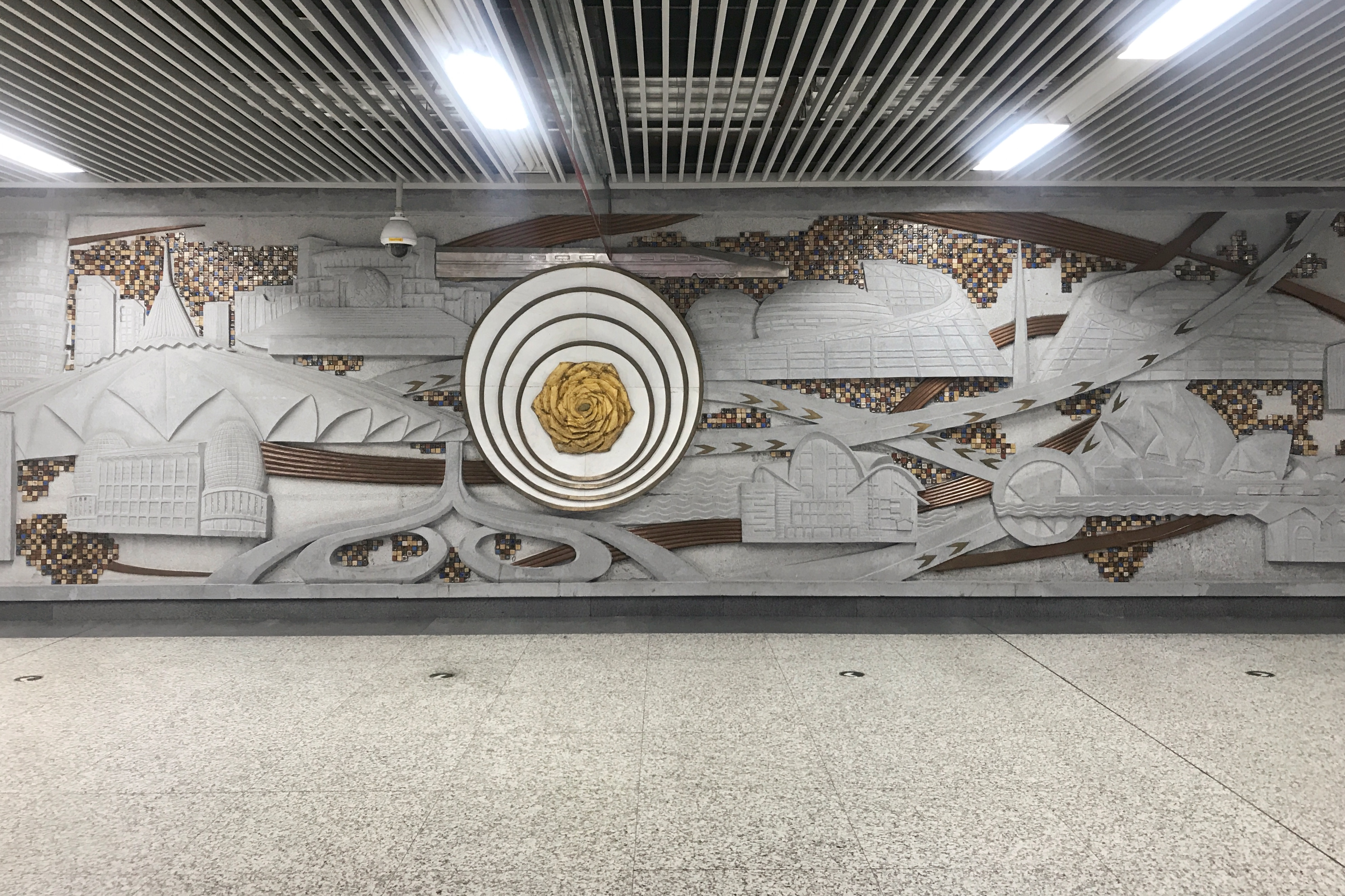 Artwork at Convention and Exhibition Center Station of Zhengzhou Metro